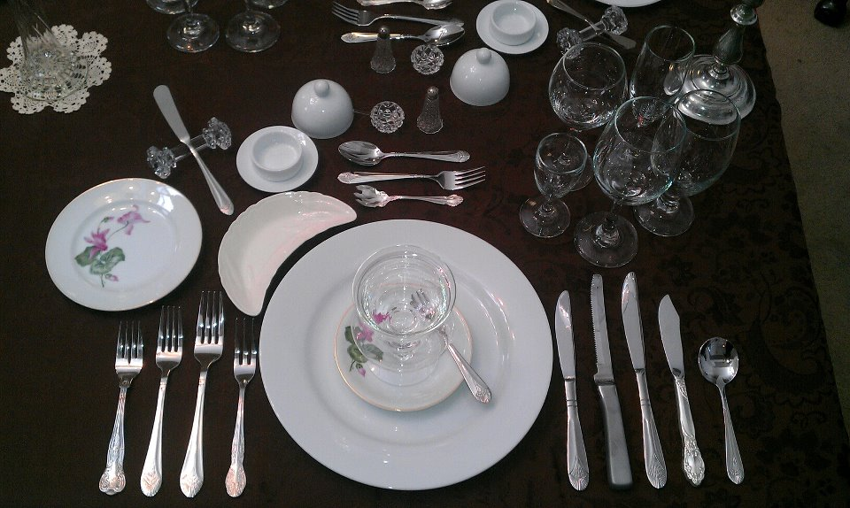 Seafood cocktail with cocktail fork served in a cocktail glass w/ice liner and dry sherry